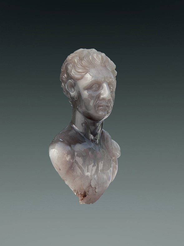 Unique, small (Ht. c. 9,5 cm w. of shoulders c. 7,5 cm), late 1st century A.D. three-dimensional portrait bust, carved in original highly polished white chalcedony in perfect condition of emperor Marcus Cocceius Nerva from private collection.